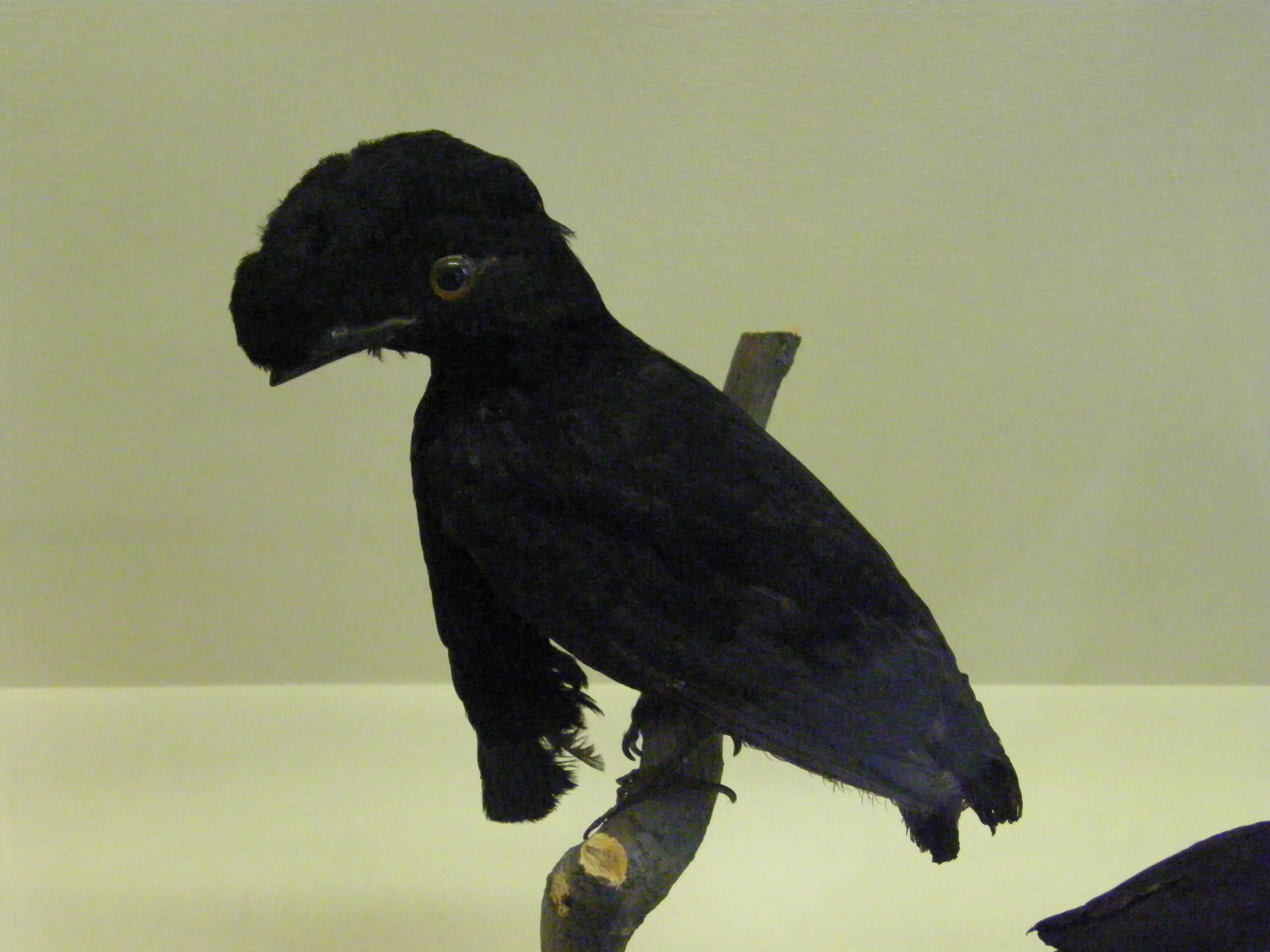 Long-wattled Umbrellabird, Cephalopterus penduliger at Naturhistorisches Museum Wien, Vienna, Austria.